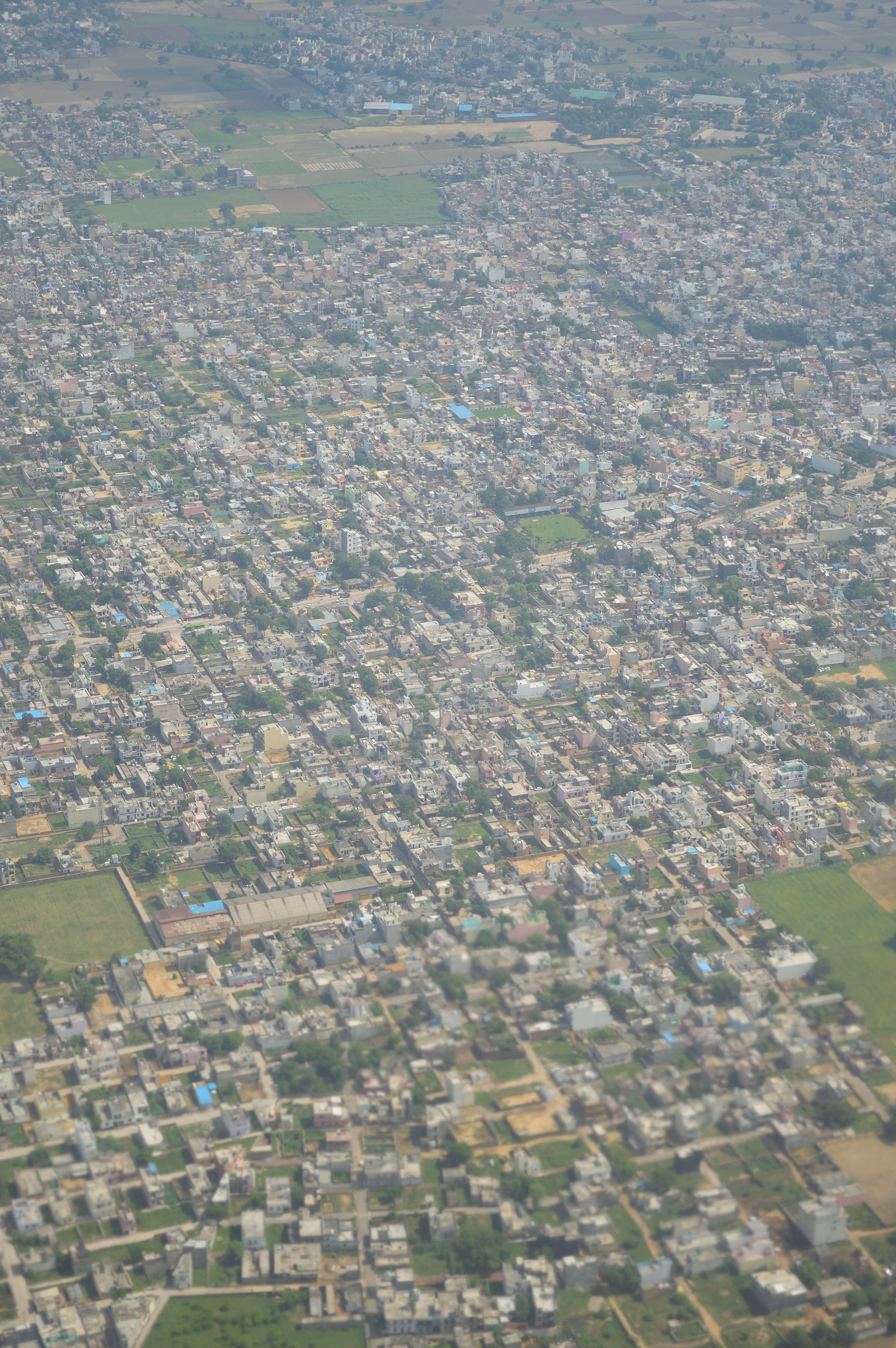 This photograph has been taken in India.